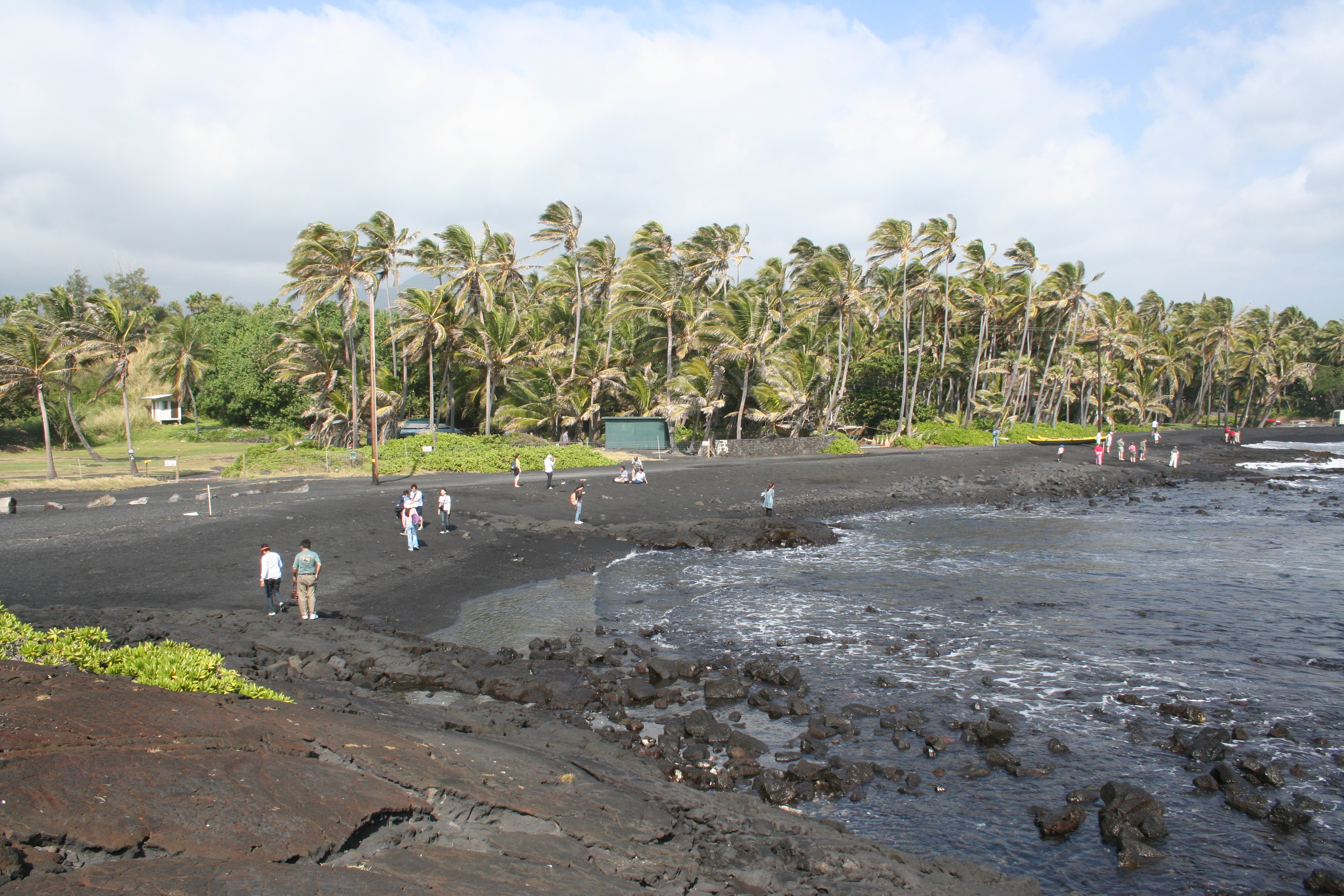 Punaluu Black Sand Beach Park, with coconut palms — island of Hawai’i. Kevin Parekh, Anyone may use this image.